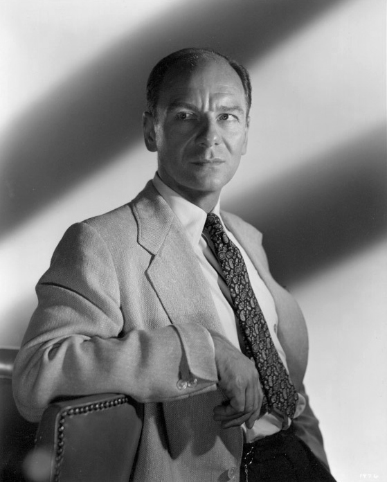 Publicity still of John Gielgud for film Julius Caesar